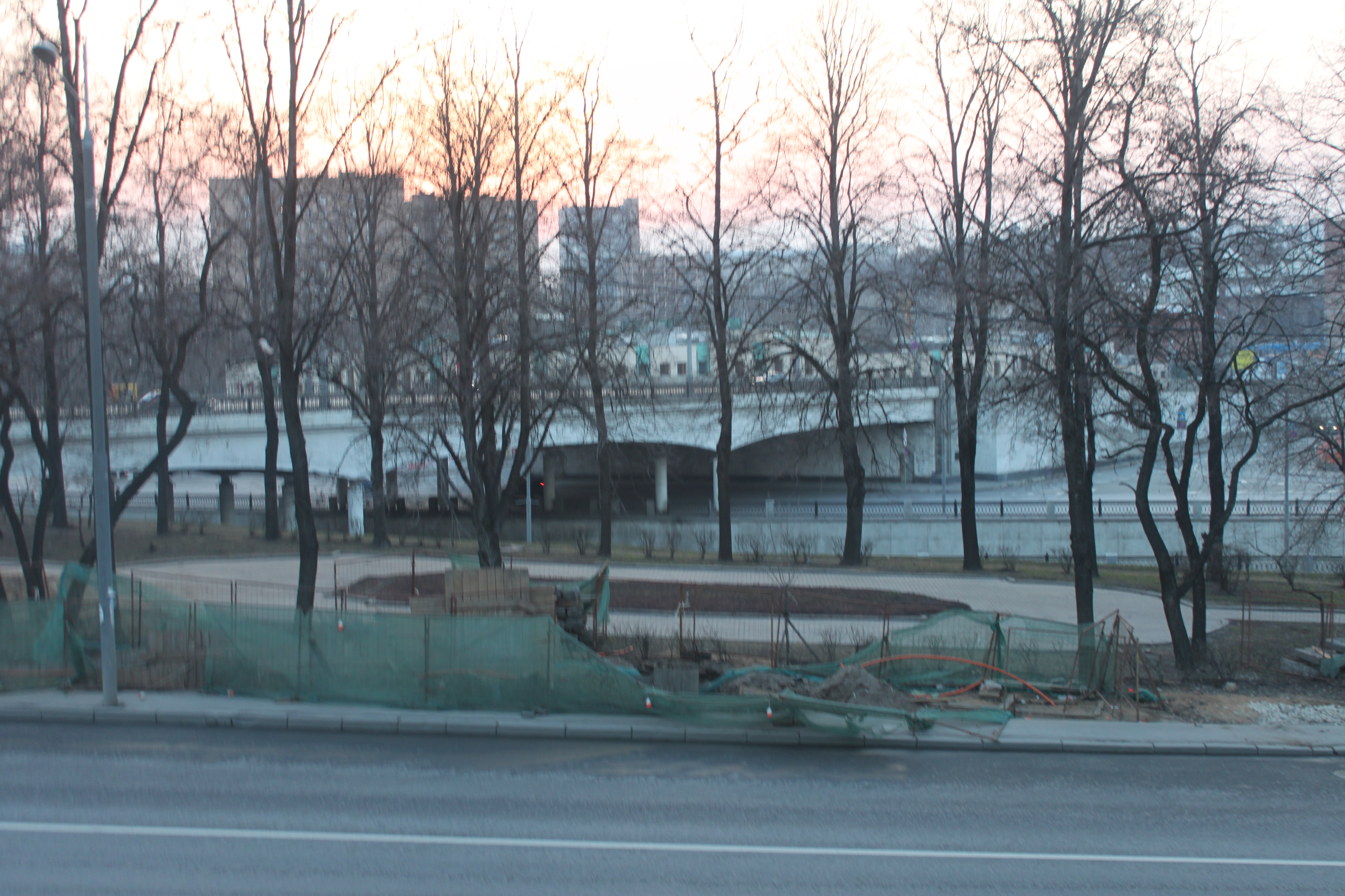 Andronievskaya embankment.